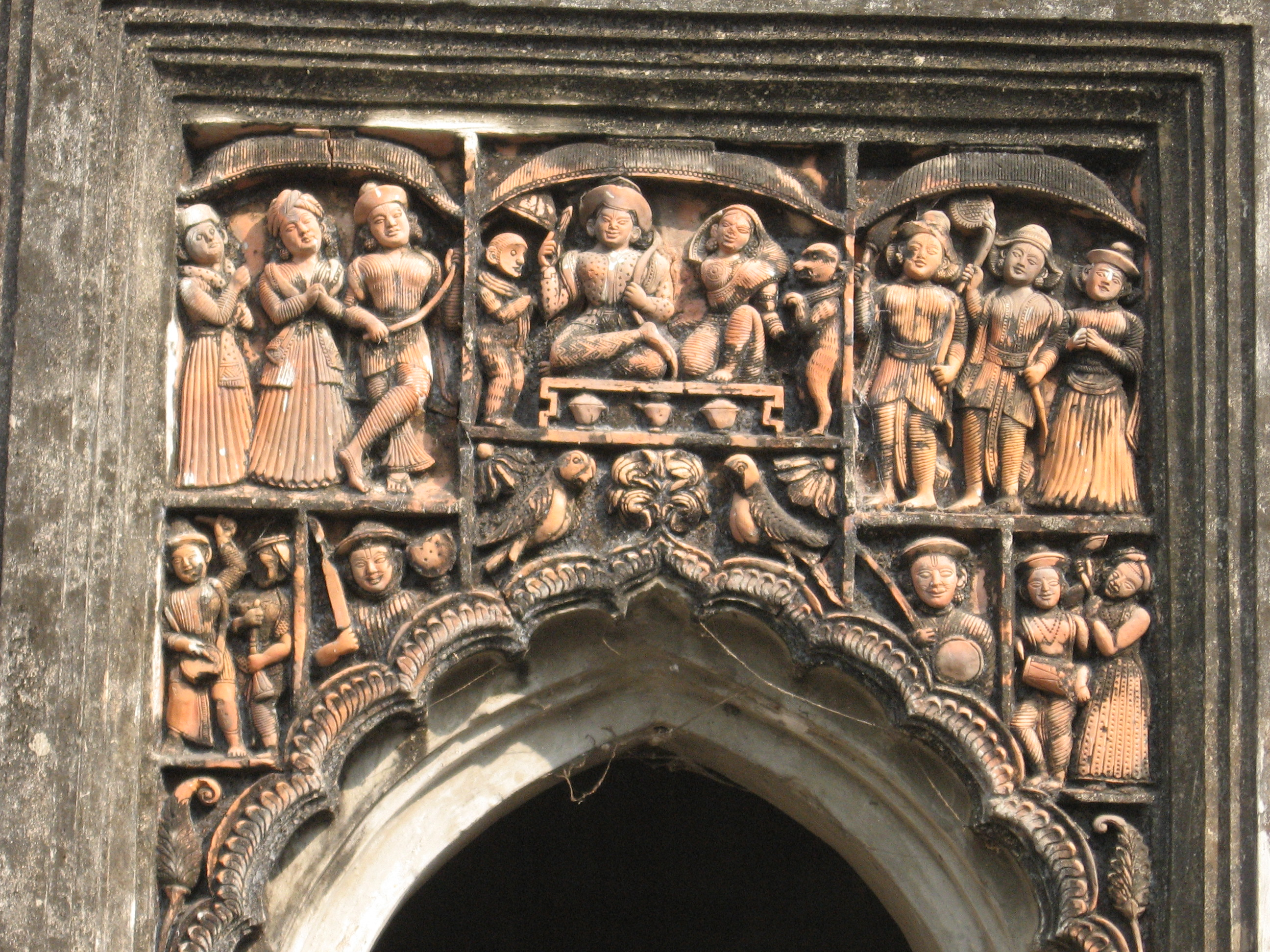 Terracotta decoration in a temple at Surul, Birbhum district, West Bengal, India